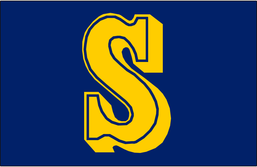 The cap insignia for the Seattle Mariners baseball team from 1987 to 1992